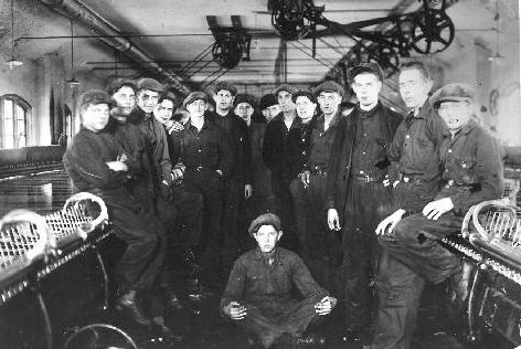 Wool factory in Åbyfors, Sweden in the 30s. Swedish author Folke Fridell is 2nd person from the right